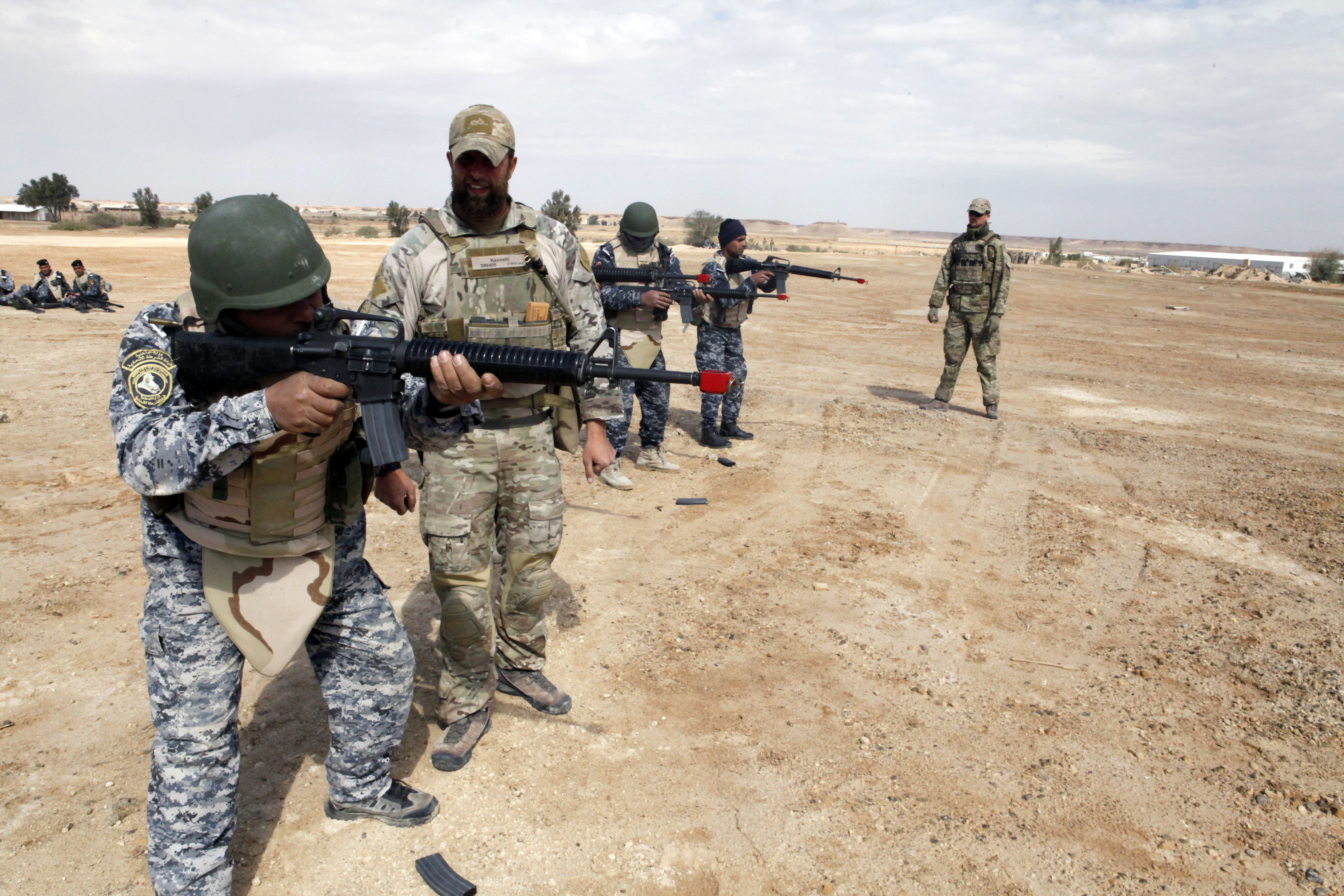 Members of the Iraqi Federal Police Force sight in on targets with their M16 rifles while participating in small-unit military tactics training at Al Asad Air Base, Iraq, March 22, 2016. As part of the building partner capacity (BPC) mission, Royal Danish Army Soldiers with Task Force Al Asad provide periods of instruction on various skills to increase the tactical capabilities of the Iraqi forces in order to fight the Islamic State of Iraq and the Levant (ISIL). Combined Joint Task Force - Operation Inherent Resolve BPC training is focused on combat or policing skills and includes: simple military tactics, instruction in leadership, ethics, the law of war, land navigation, battlefield medicine, counter-sniper tactics, explosive hazard awareness training, infantry skills, small unit maneuvering and combined arms obstacle breaching. (U.S. Army photo by Sgt. Joshua E. Powell/Released) Unit: Combined Joint Task Force - Operation Inherent Resolve